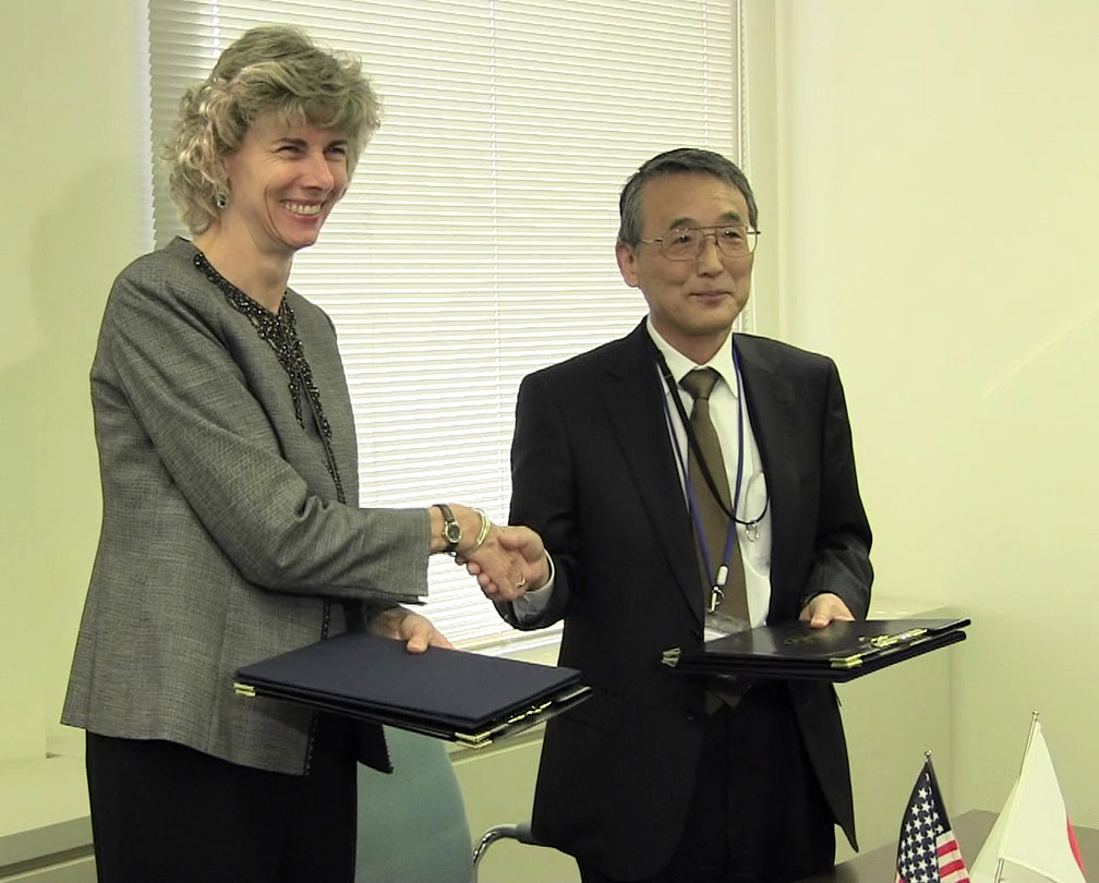 Shun'ichi Tanaka, Chairman of the Nuclear Regulation Authority, and Allison Macfarlane, Chairman of the Nuclear Regulatory Commission, exchanged documents after a signing ceremony on December 18, 2012.